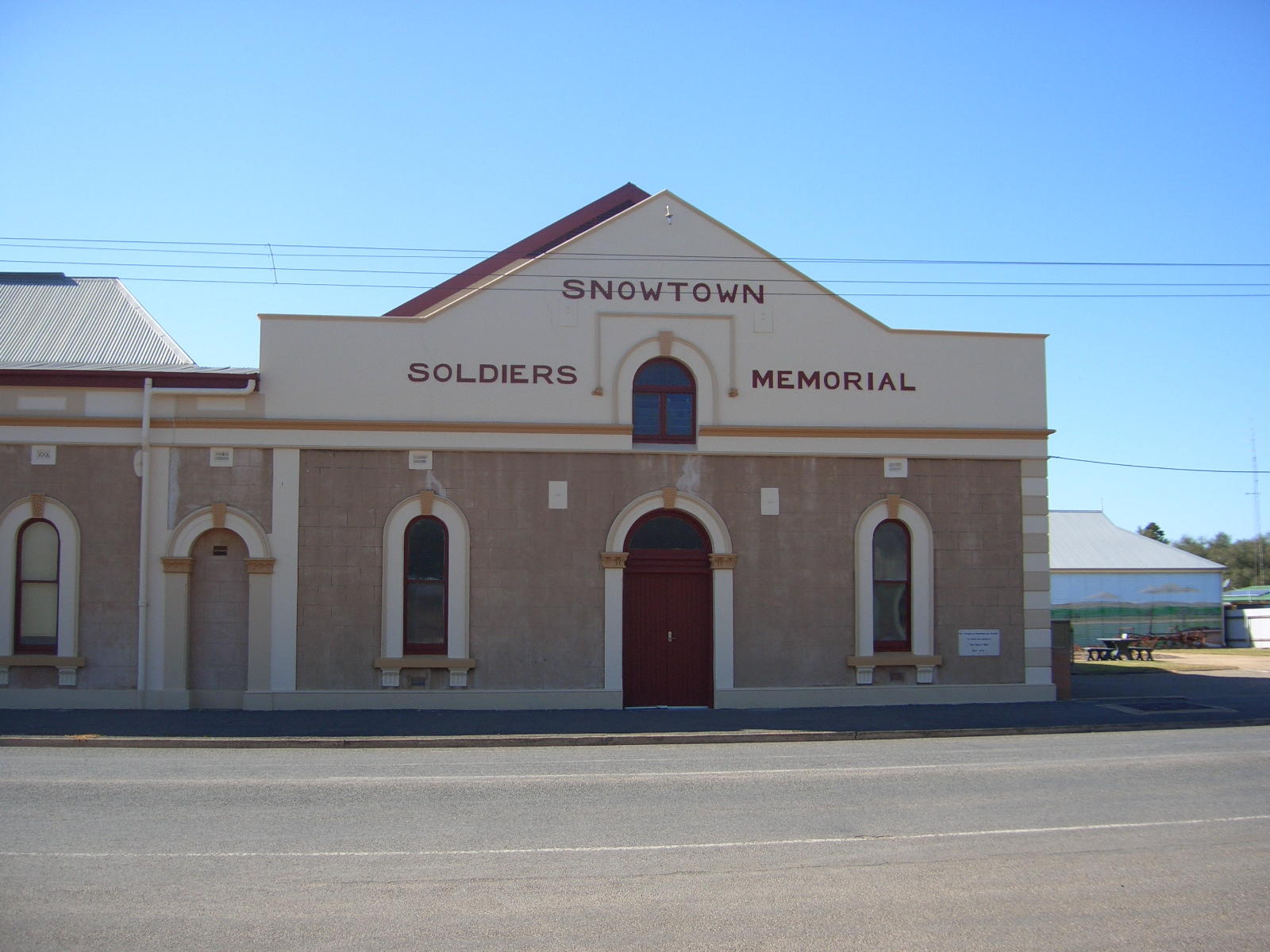 The Snowtown Soldier Memorial hall